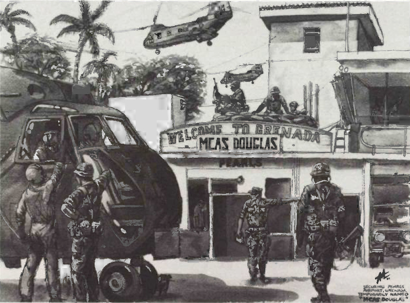 Pearls Airport, Grenada's principal civilian airfield, was captured by Marines on D-Day and temporarily renamed Marine Corps Air Station (MCAS) Douglas in honor of a sergeant major who died in Lebanon.